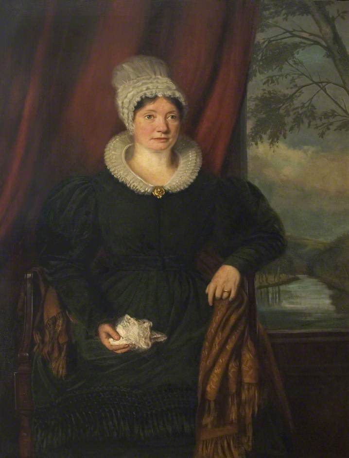 unknown artist; Mrs Elizabeth Crichton of Friars' Carse; NHS Dumfries and Galloway; - guess date as 1850